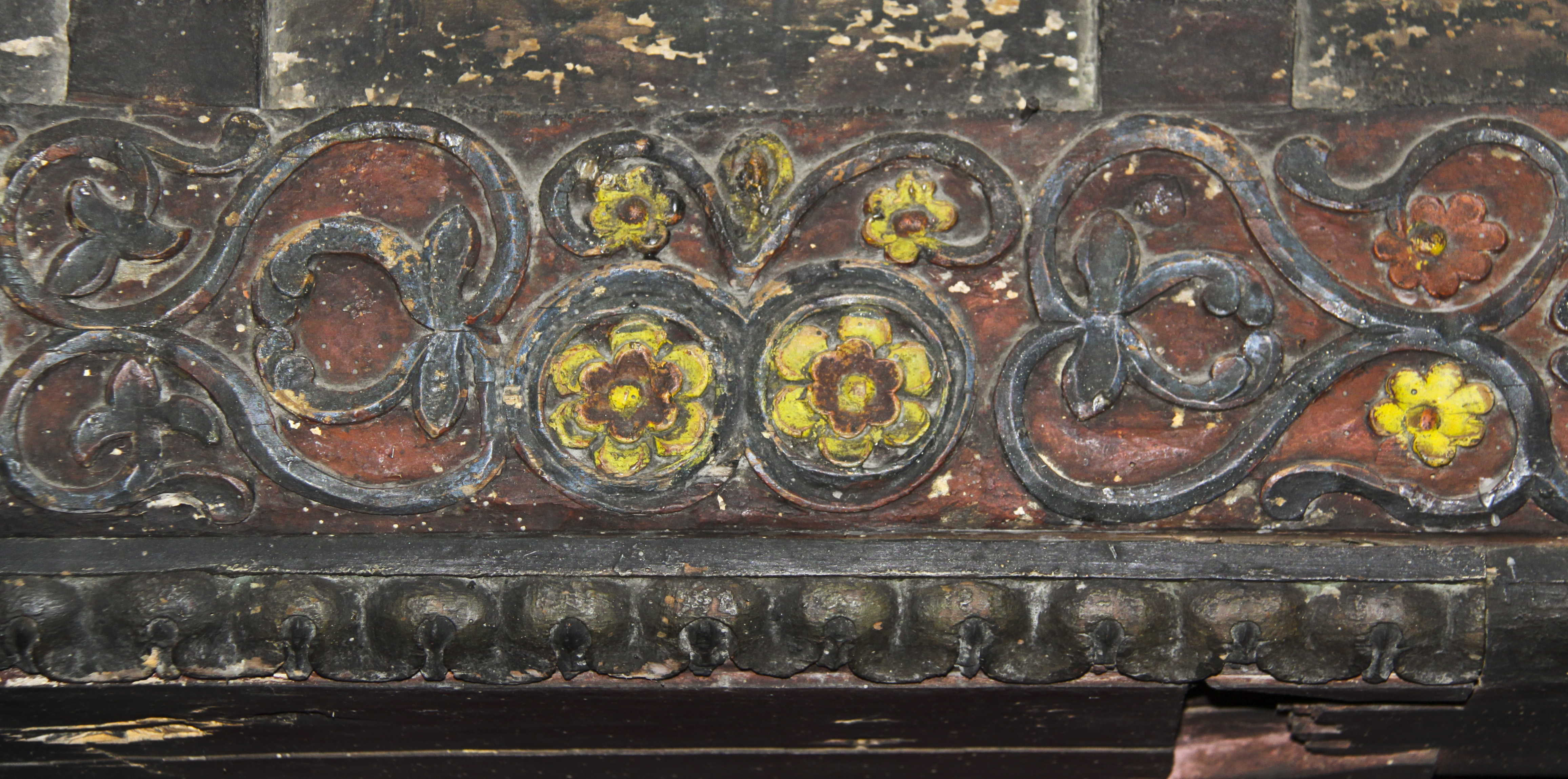 Drăceşti, Teleorman county, Romania: the wooden church.